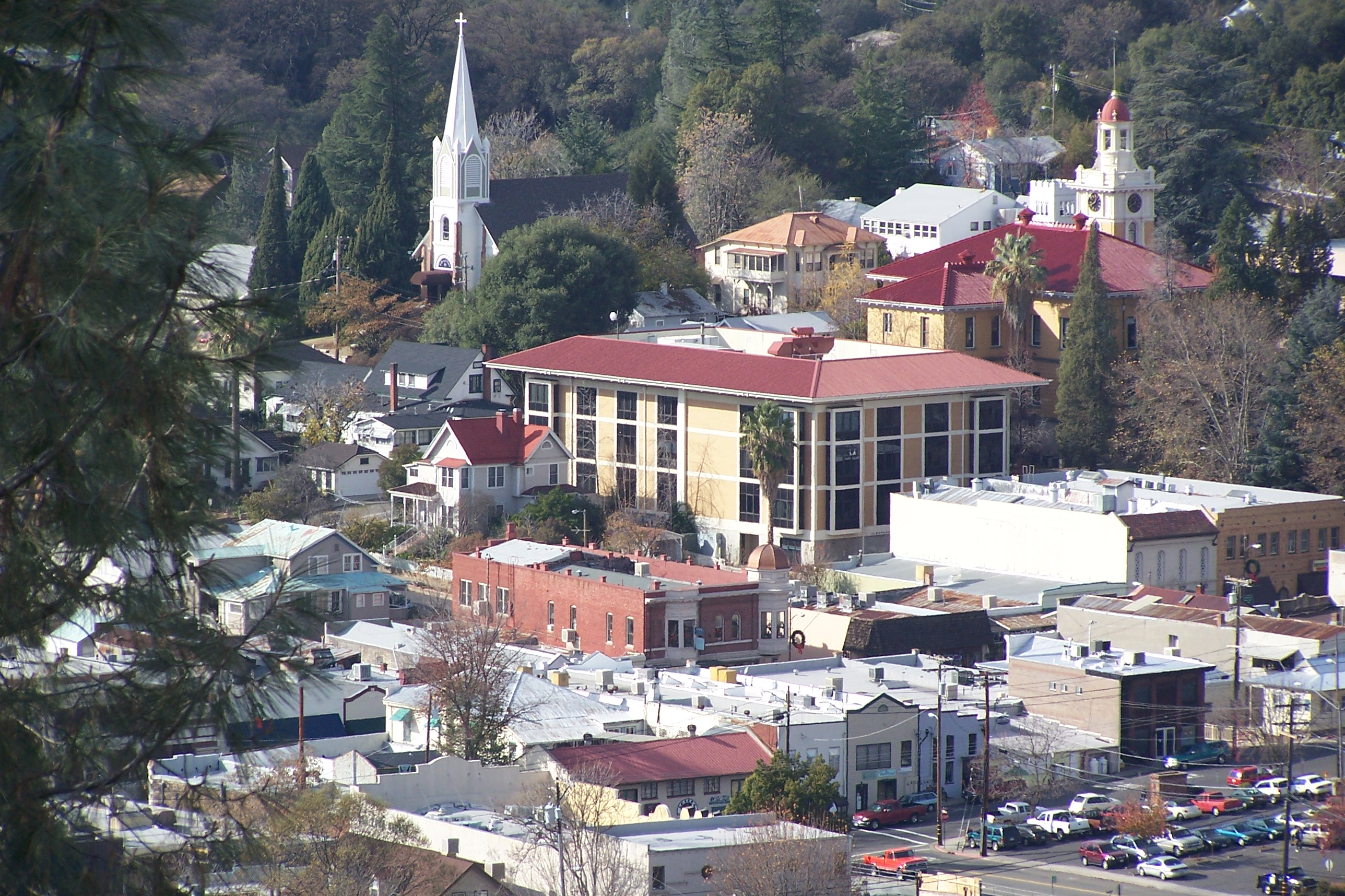 Shot of downtown Sonora taken during the wintertime. This photo was captured by my friend and released with his permission. Taken on 4 December 2005 using a Kodak Z740.